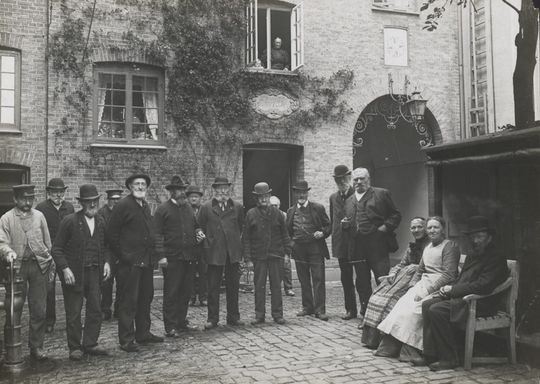 A ceremony at Bombebøssen in Christianshavn, Copenhagen, Denmark, marking the 150-years birthday of the founder